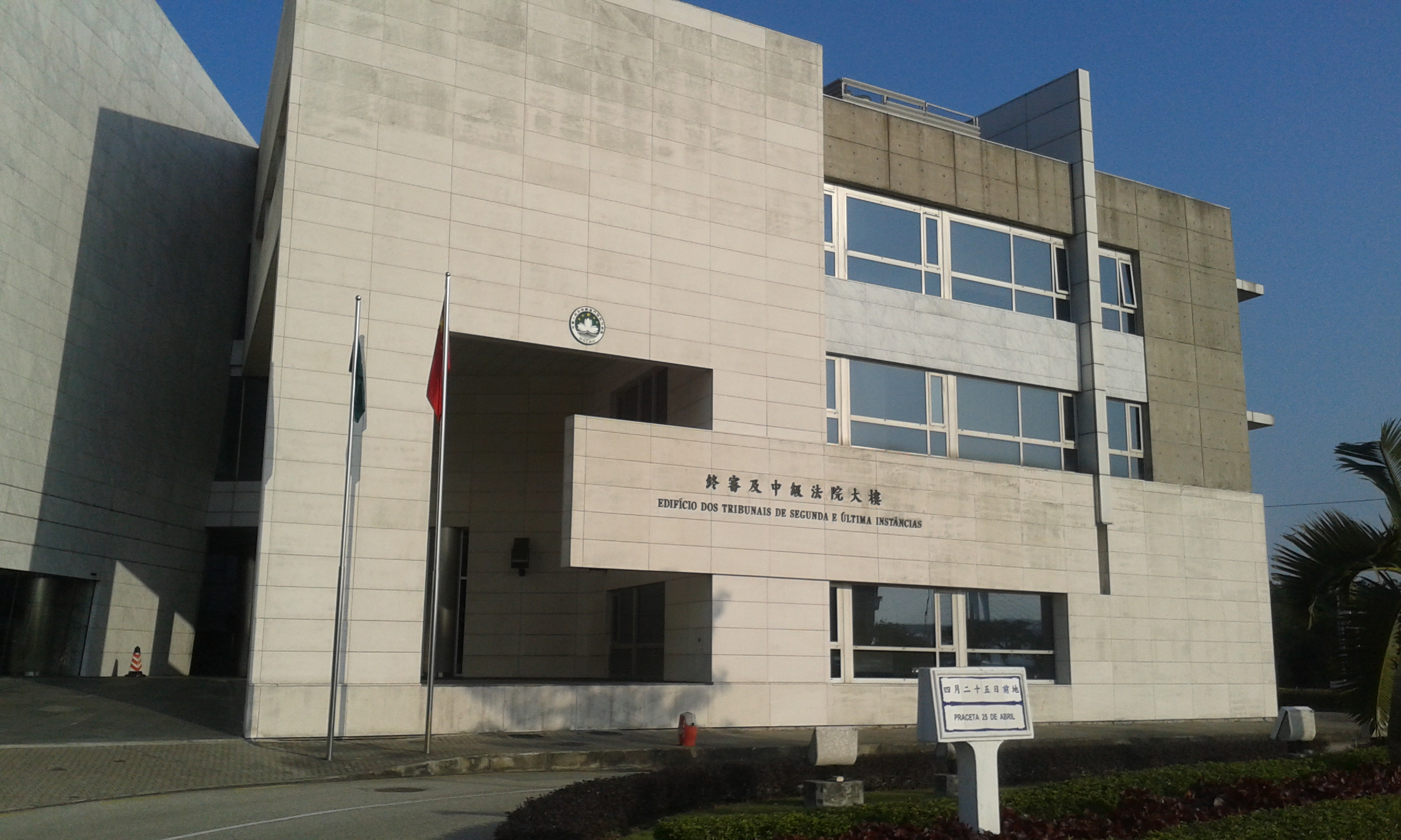 Building of the Court of Second and Last Instance